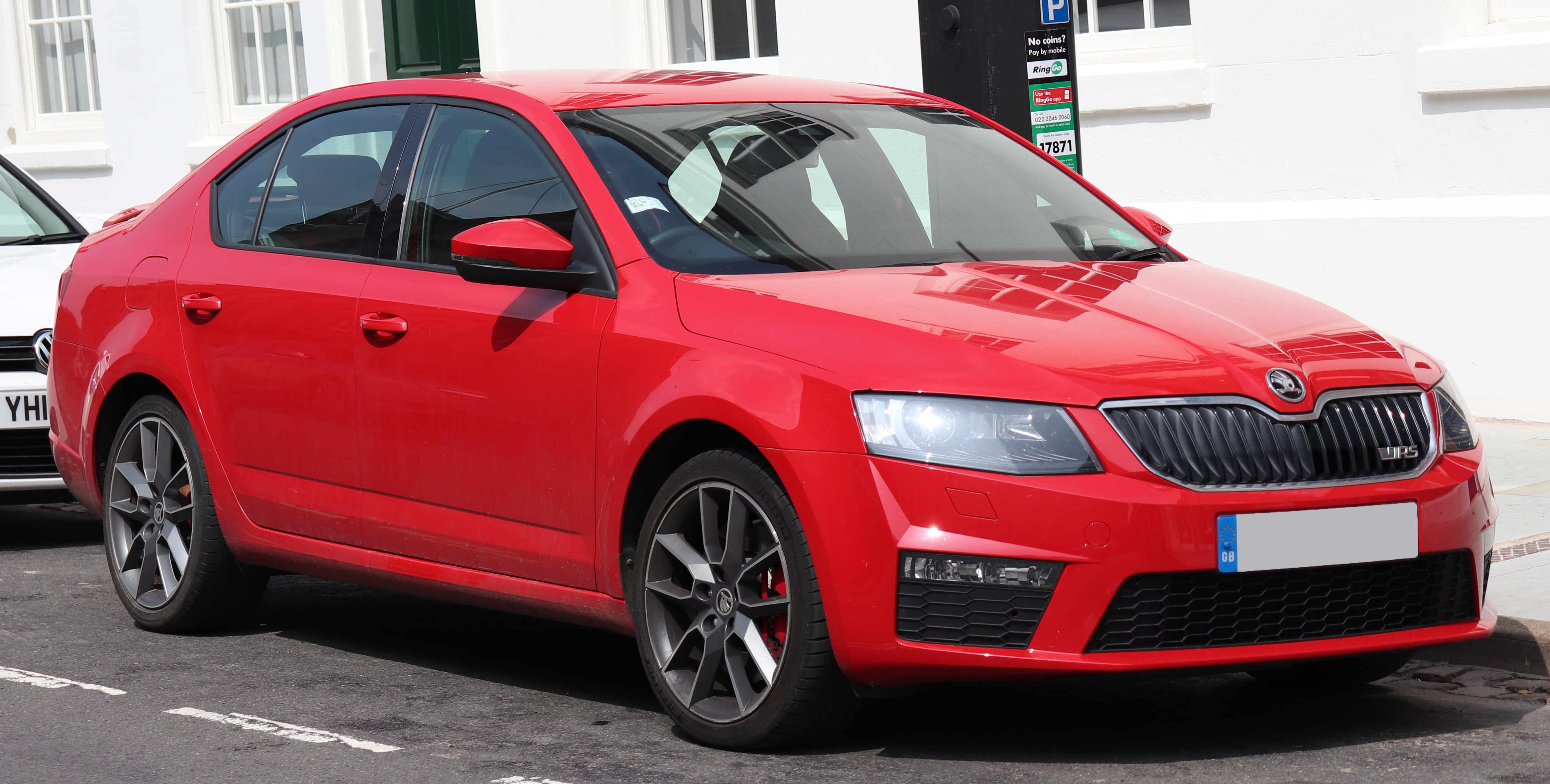 2015 Skoda Octavia VRS TDi CR 2.0 Front Taken in Warwick